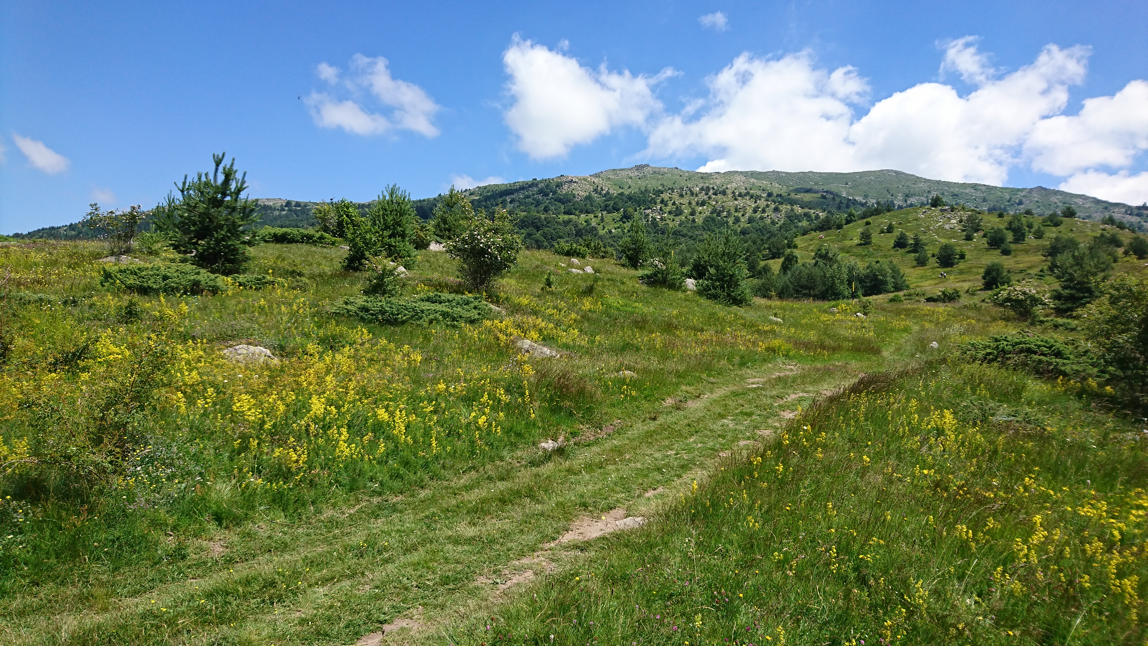 A view to Selimitsa peak in the western part of Vitosha mountain